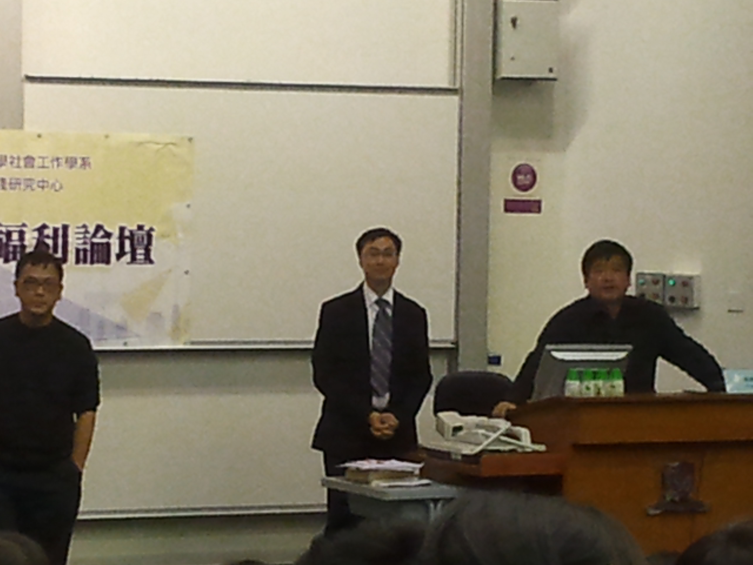 Chong Yiu Kwong in seminar